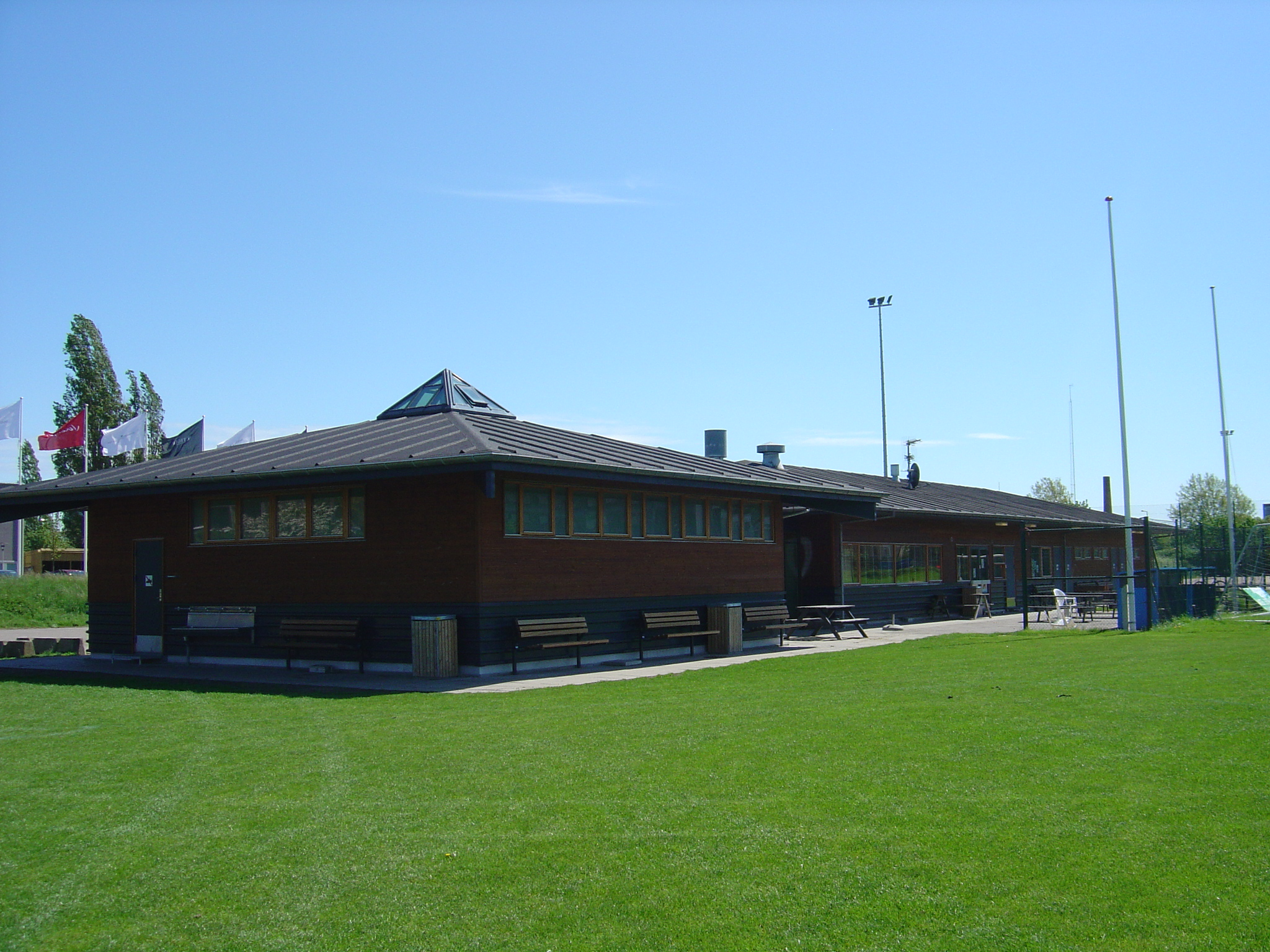 Sundby Boldklub - the club house of a association football club located on Kløvermarken, Amager, Copenhagen. Seen from the northwest side, on Kløvermarkens Idrætsanlæg.